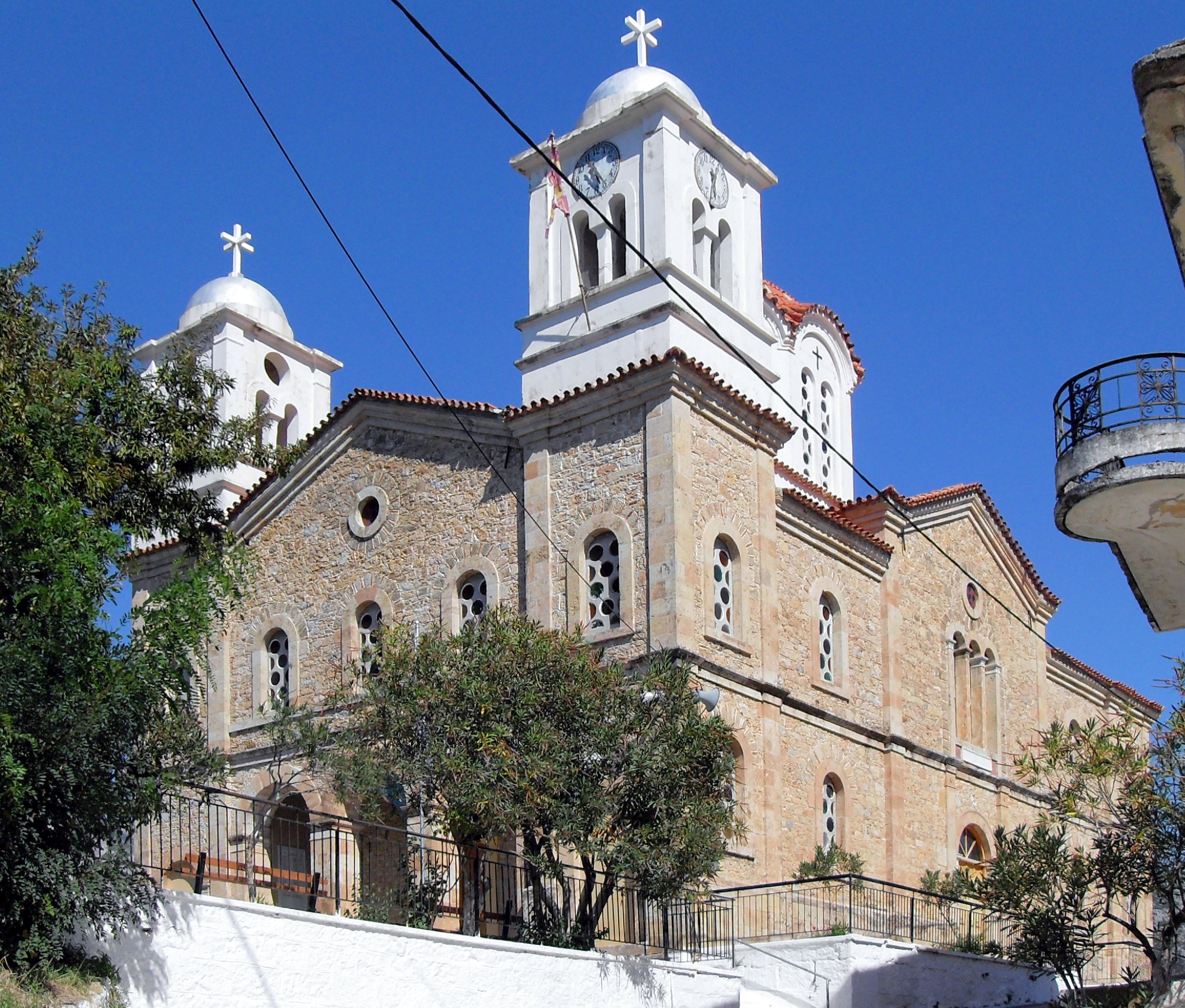 Saint Barbara church inside the village of Kampos, community of West Mani